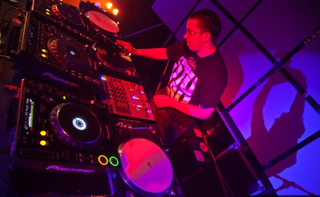 Nu:Tone performing at Hospitality.